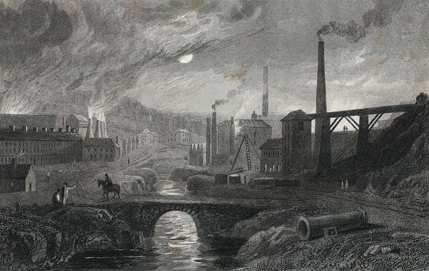 An industrial scene showing ironworks. Smoke can be seen coming out of numerous chimneys and a bridge is in the centre.